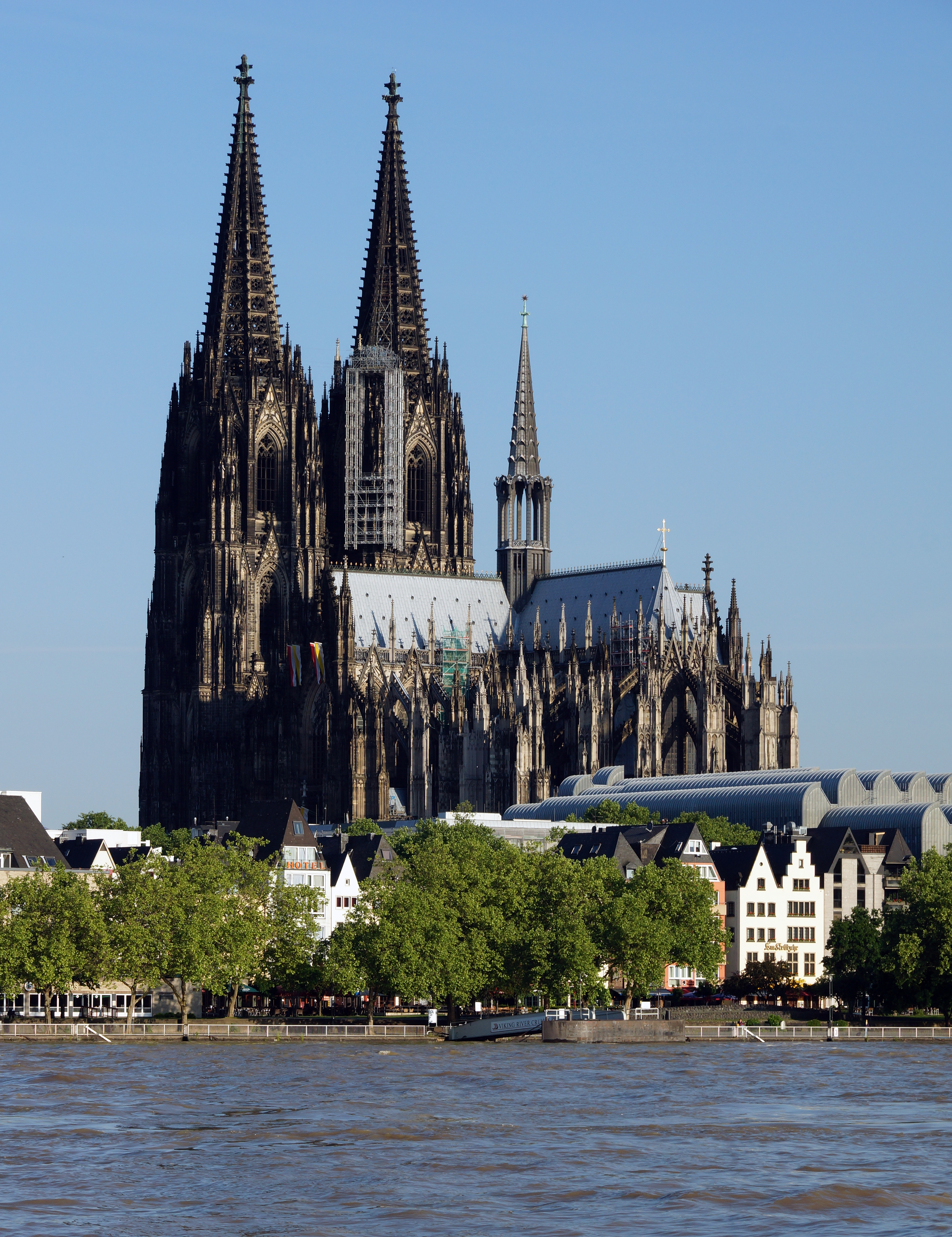 Cologne Cathedral